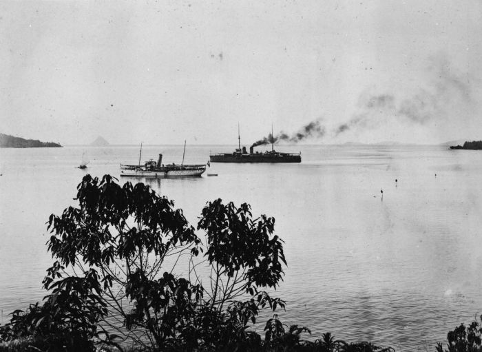 HMS 'Zeven Provinciën' and the government steamer 'Nias' in Tapanuli Bay